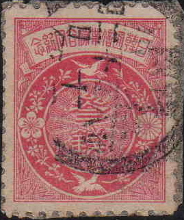 Amalgamation_of_Japan_and_Korea_Postal_Service_on_stamp